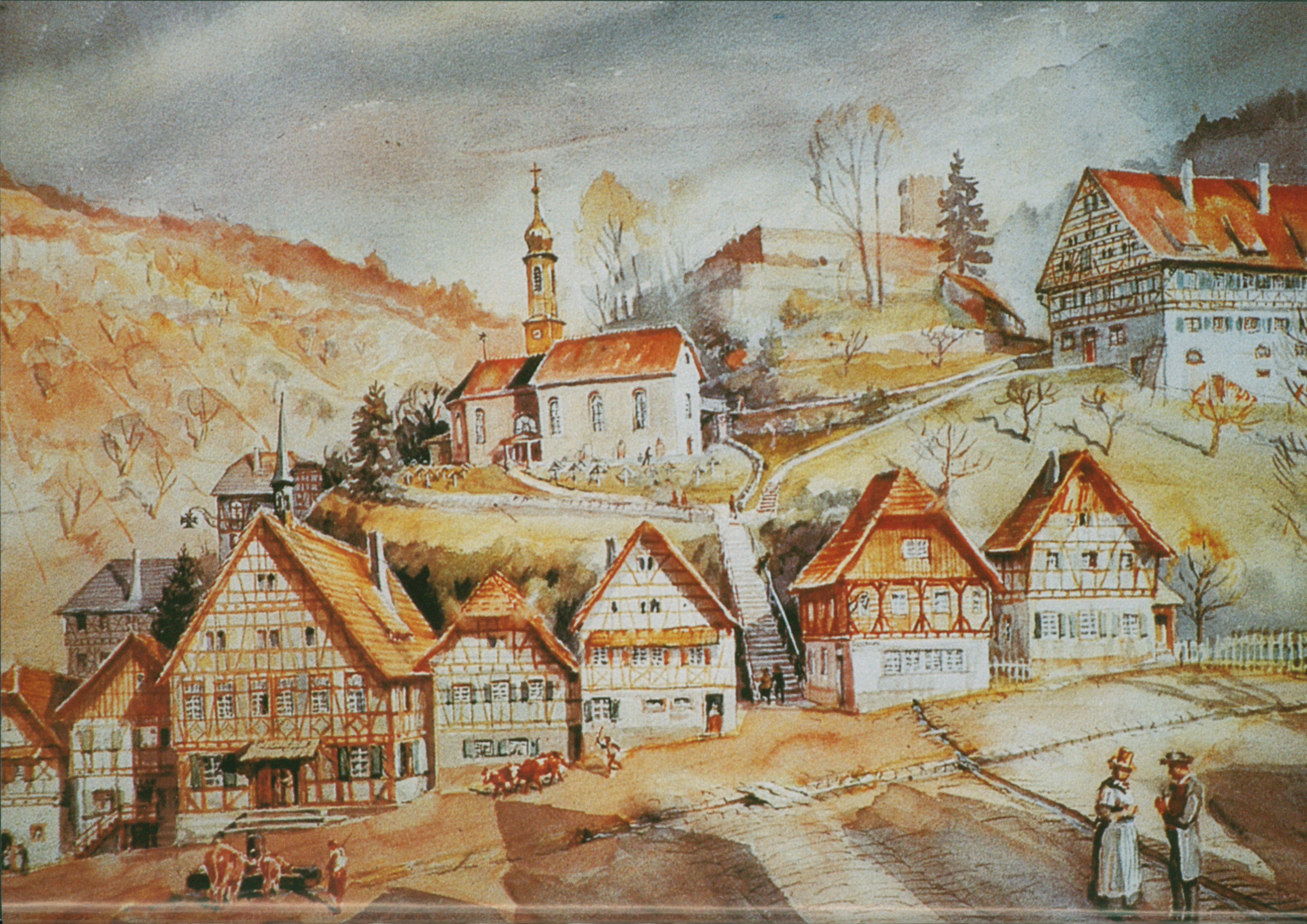 Centre of Triberg with parish church SS. Blasius and Quirinus before 1826